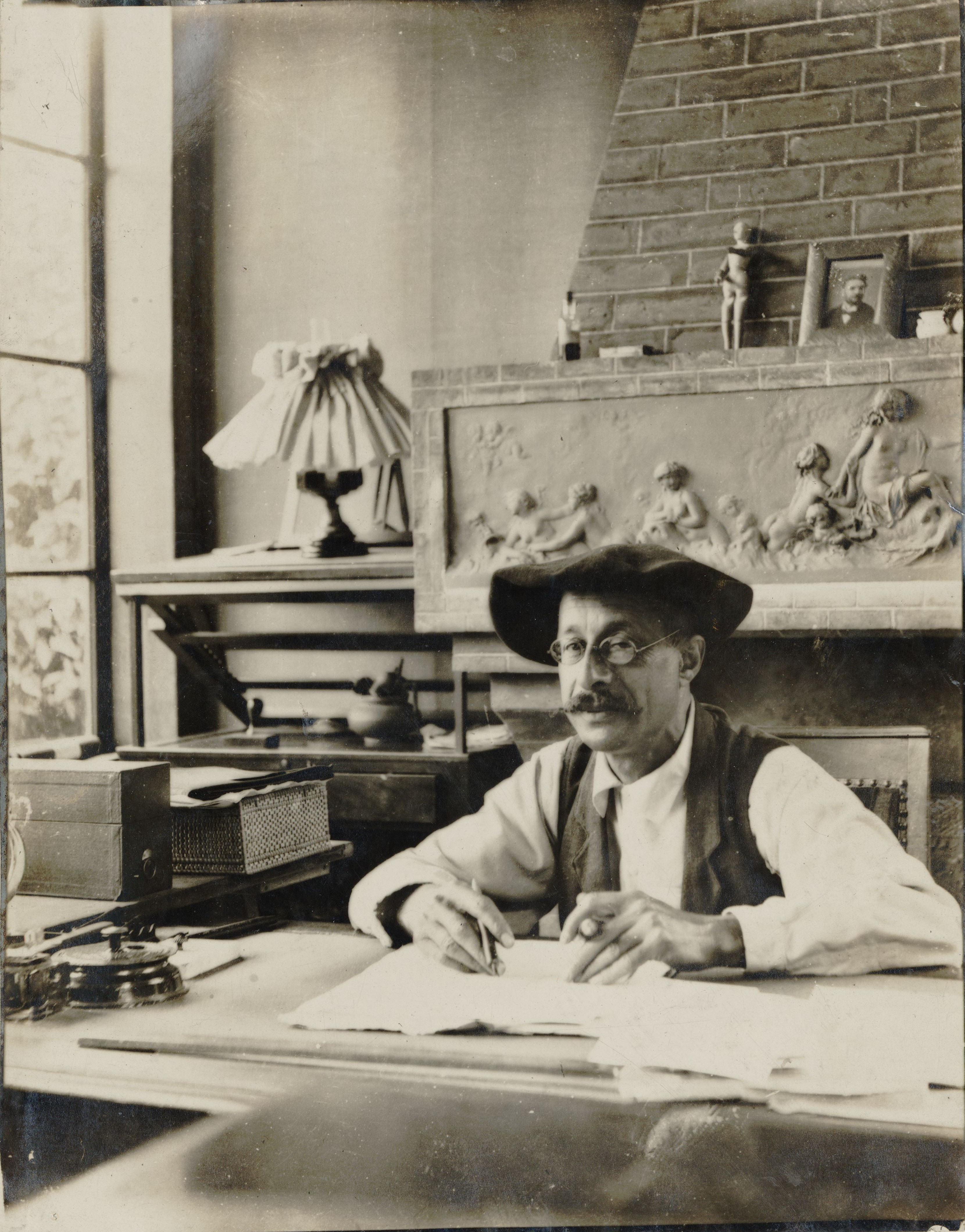 André Gedalge (1856-1926), French composer, at his home in Chessy, Seine-et-Marne